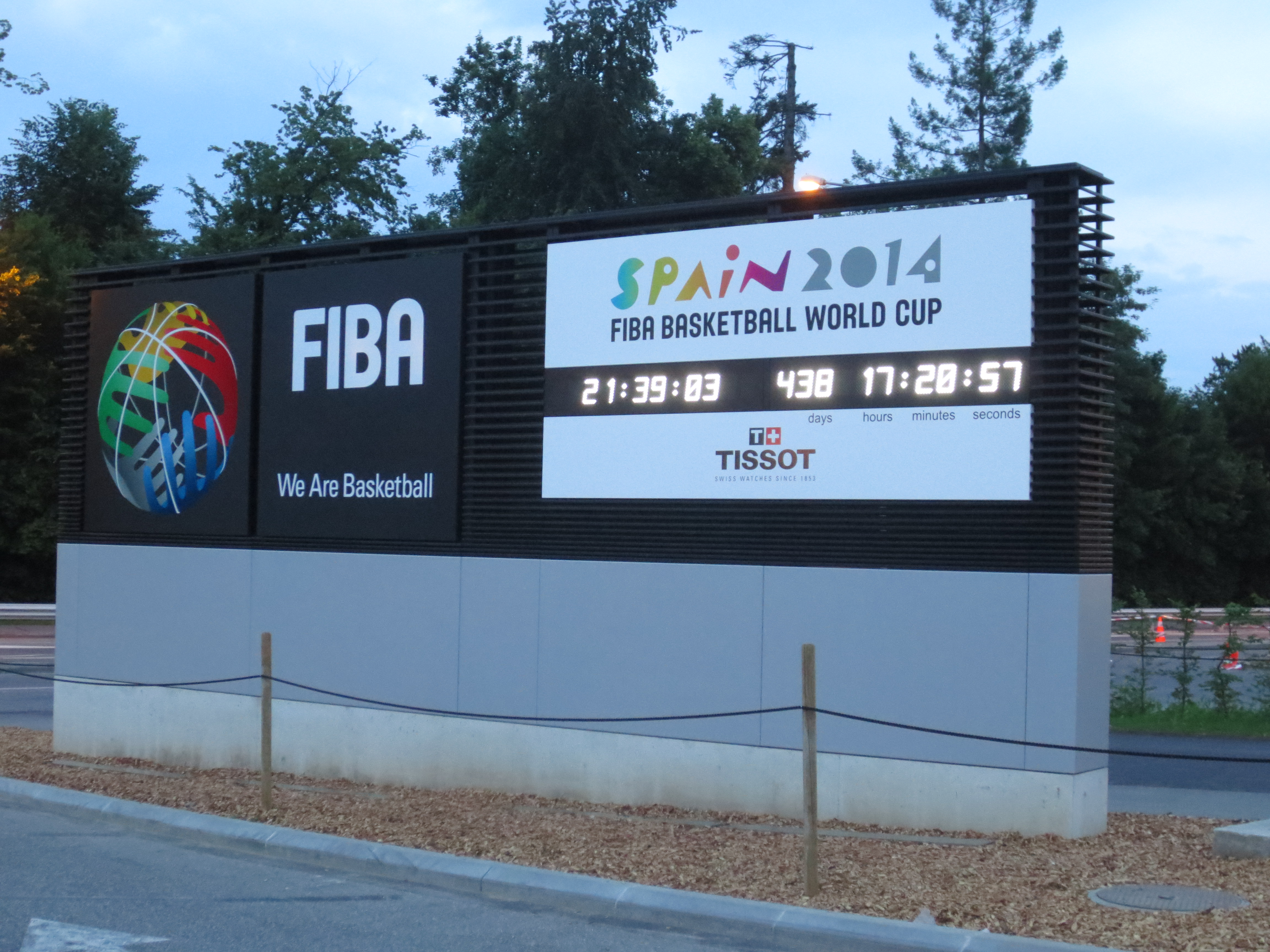 2014 FIBA World Cup countdown, FIBA headquarter, Mies